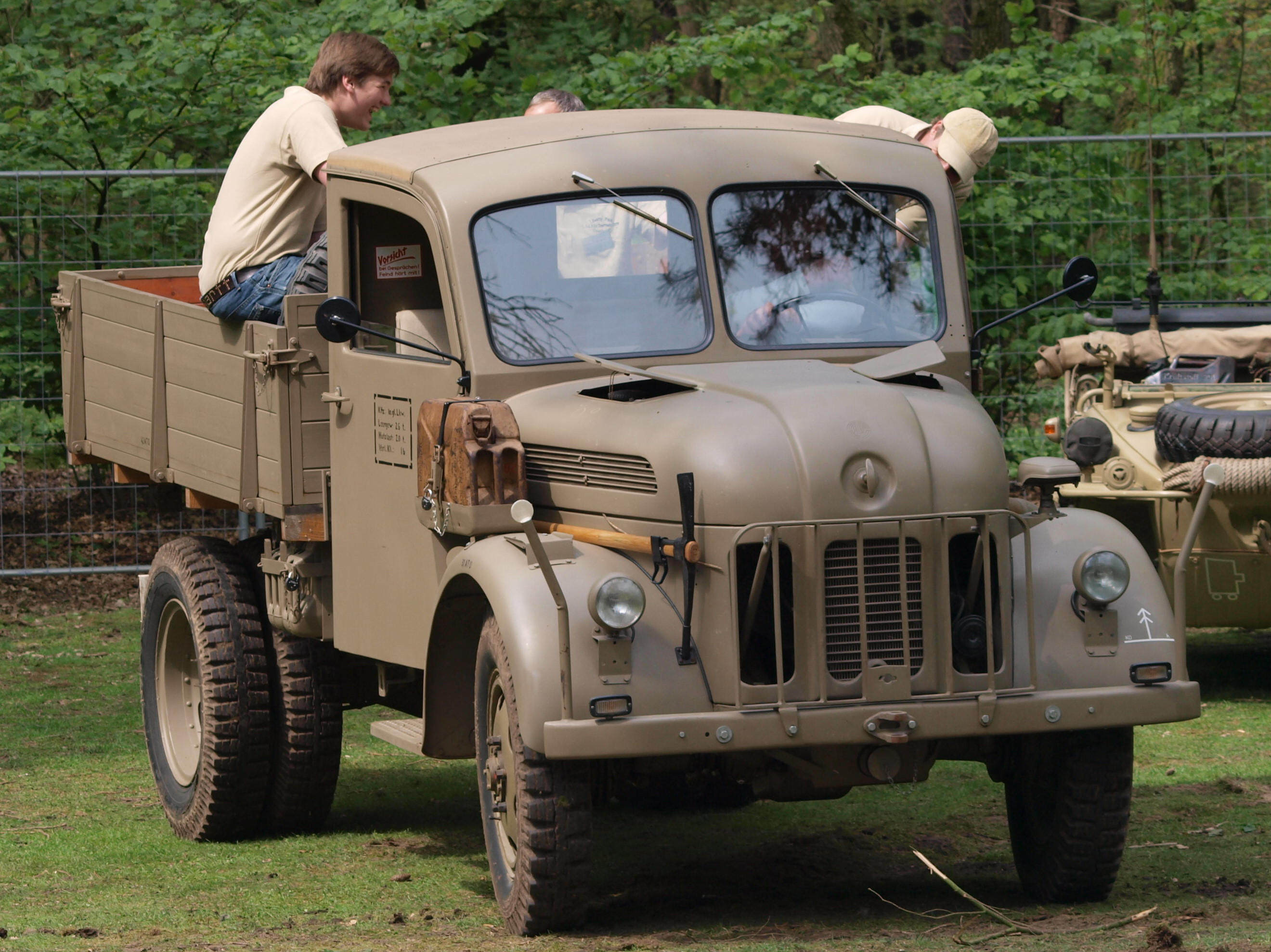 Steyr 2000 truck - Germany, World War II